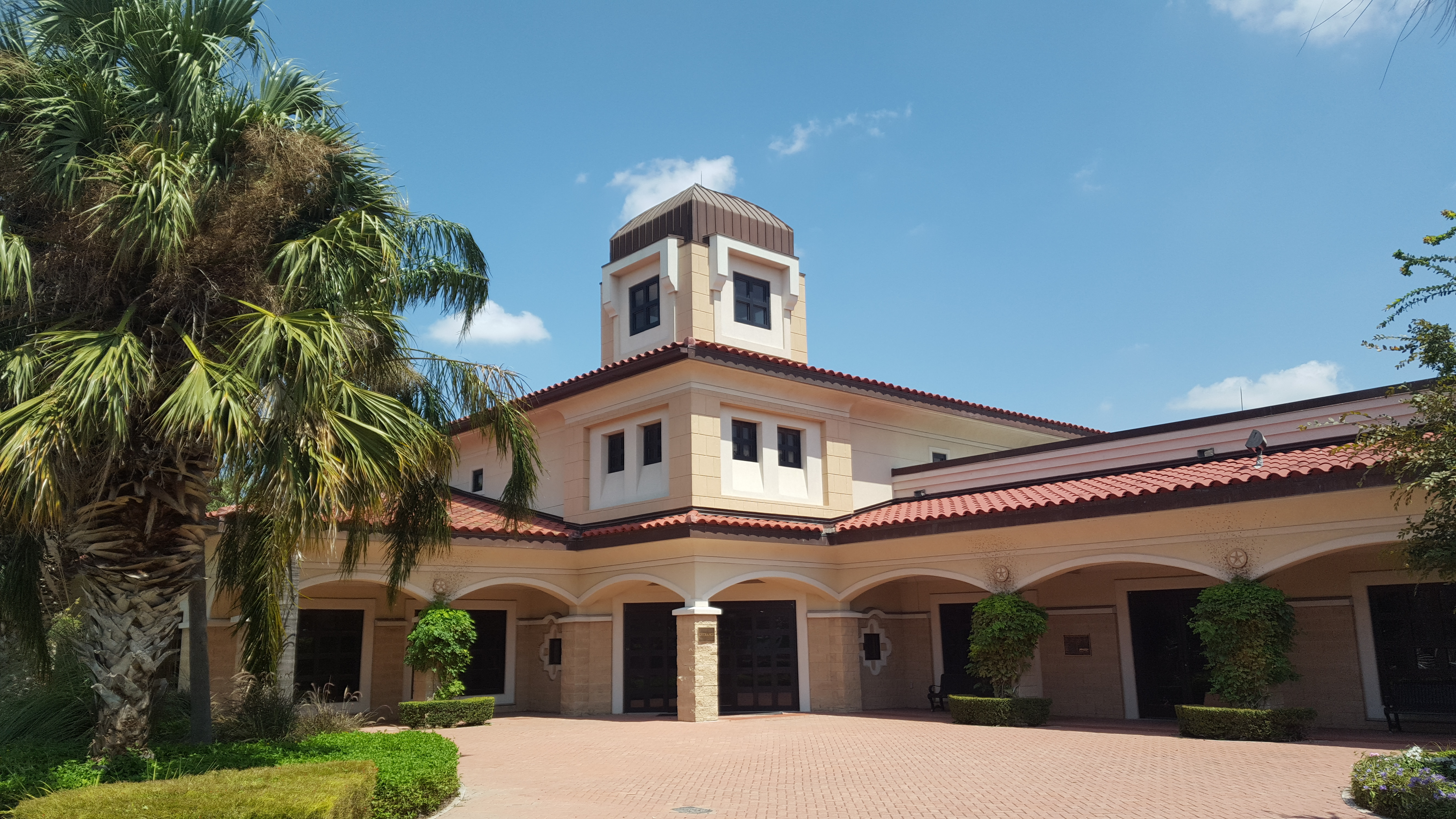 McAllen Chamber of Commerce.